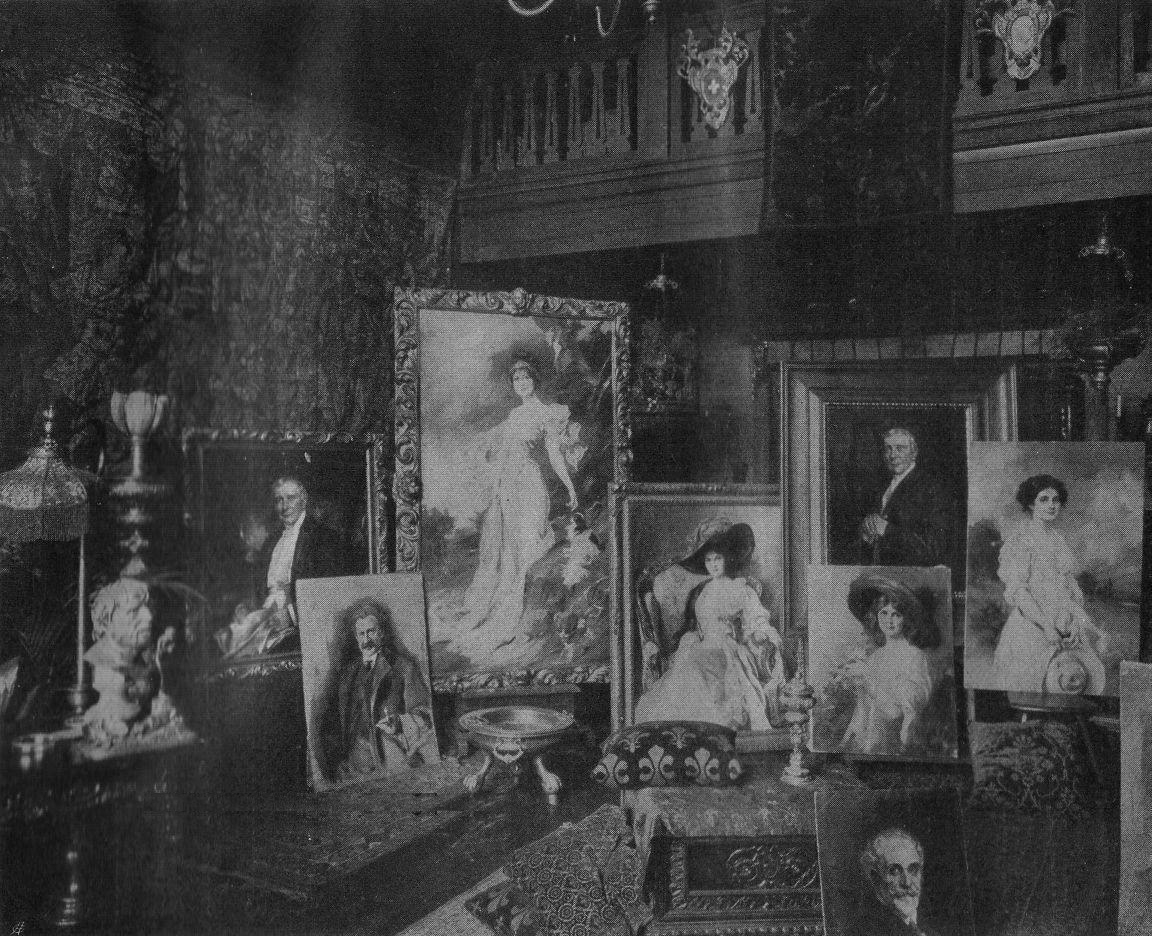 Atelier of Joszef Koppay in New York